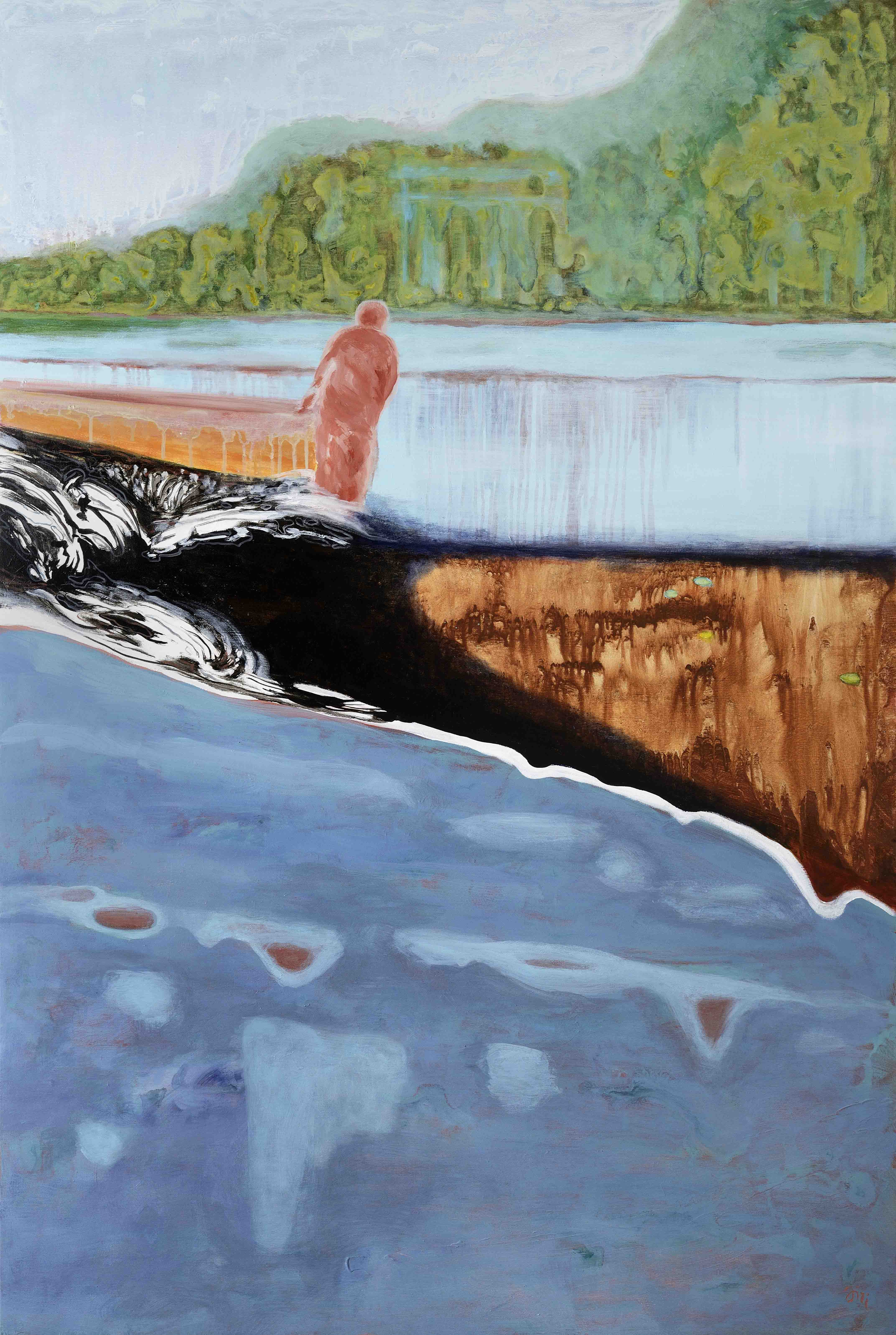 Work of Czech artist Jiří Hauschka